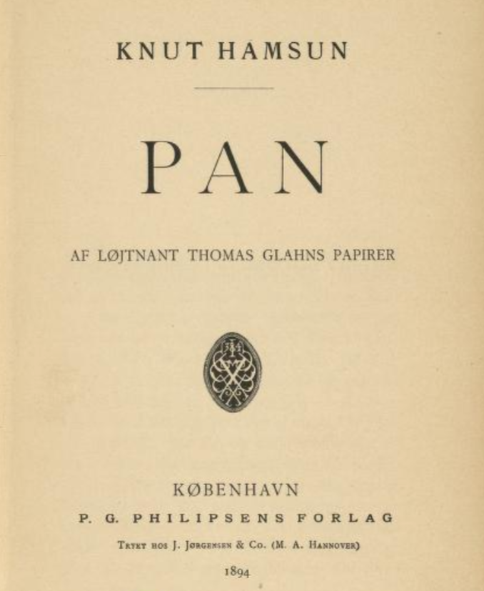 Norwegian title page of Knut Hamsun's novel "Pan", published 1894